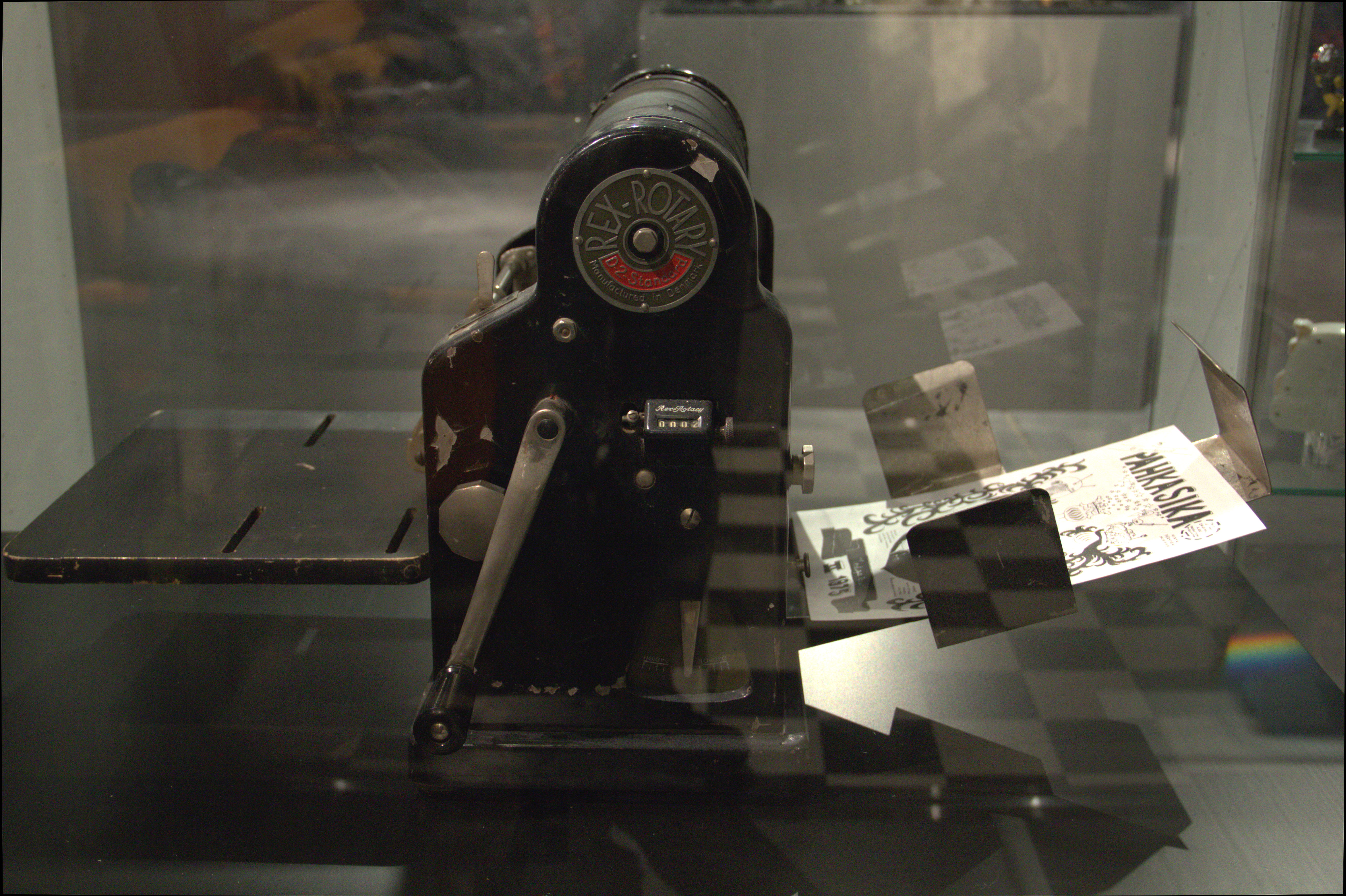 This mimeograph was used to print few first issues of Pahkasika magazine